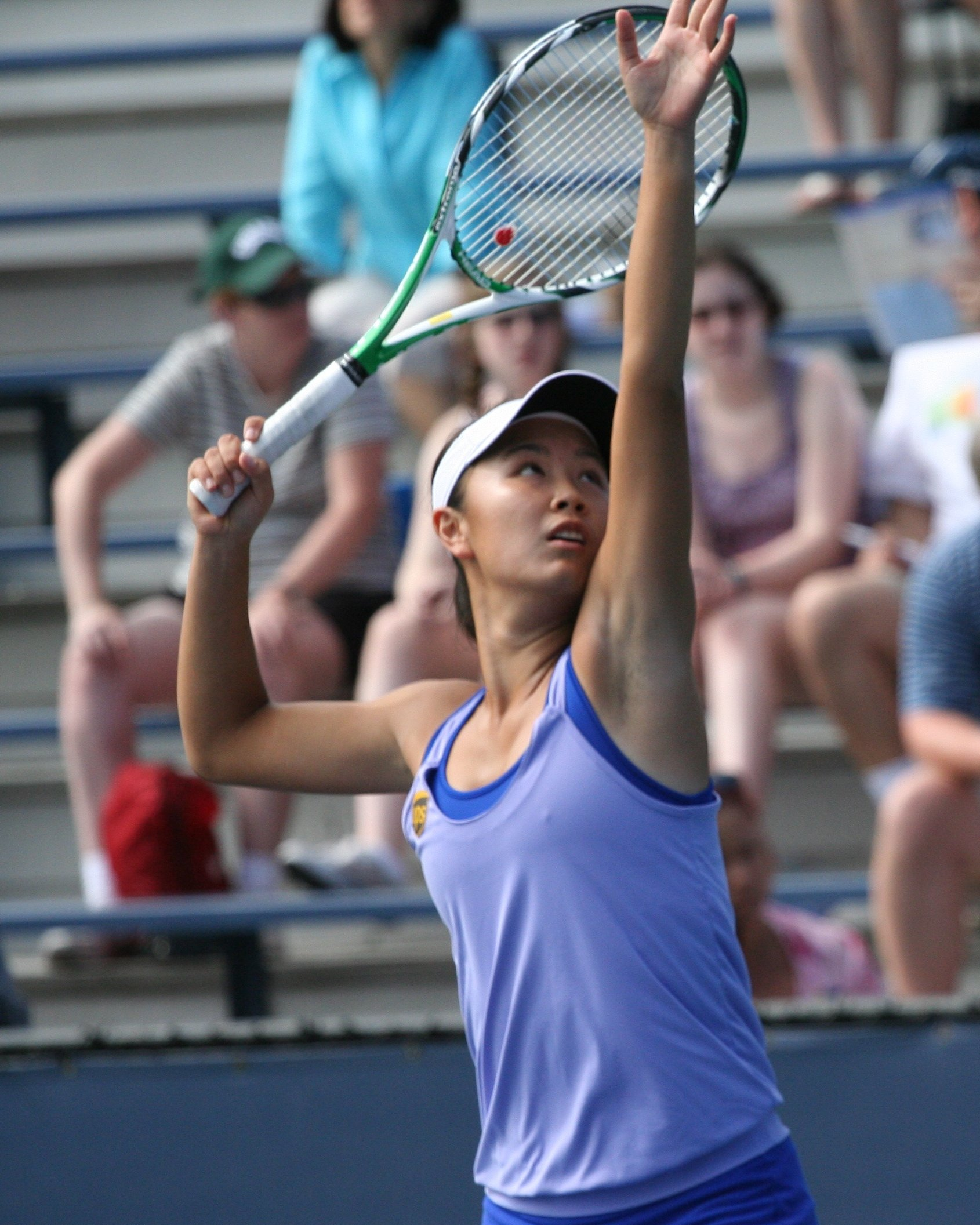 U.S. Open Friday, Sept. 4, 2009